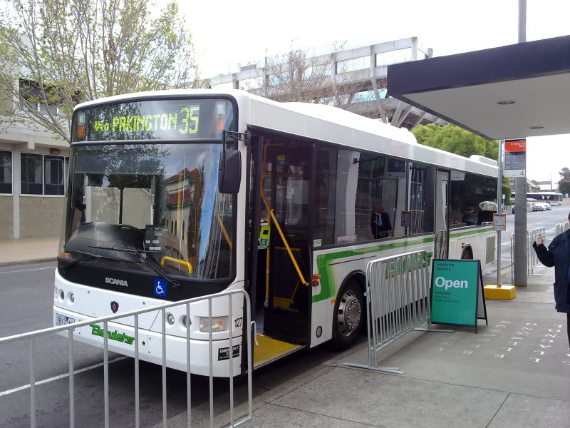 Benders Buslines #127 (Volgren CR228L, Scania K230UB chassis, built 2010). Little Malop Street East, Geelong, Victoria, Australia.